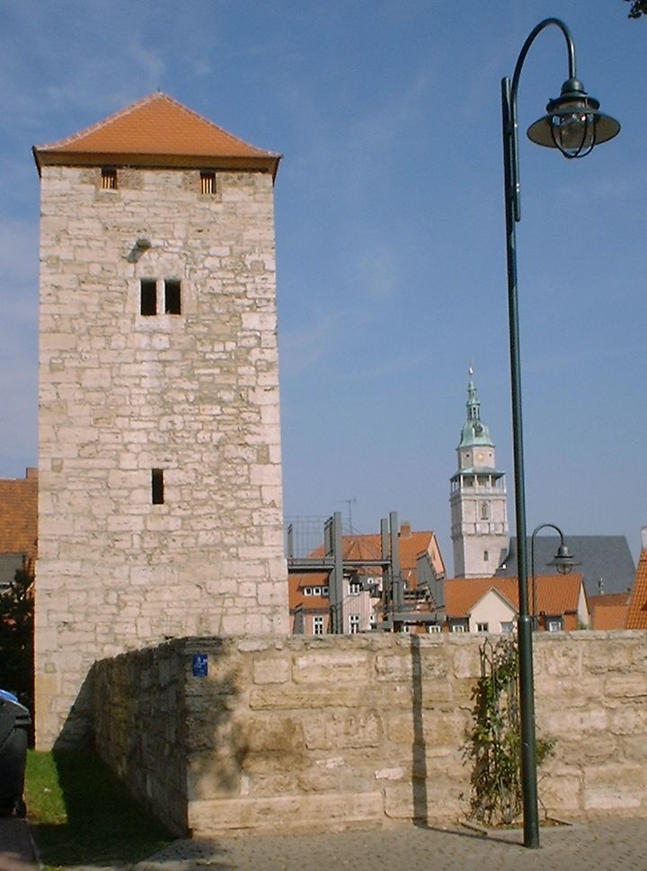 City wall and church in Bad Langensalza in Thuringia, Germany